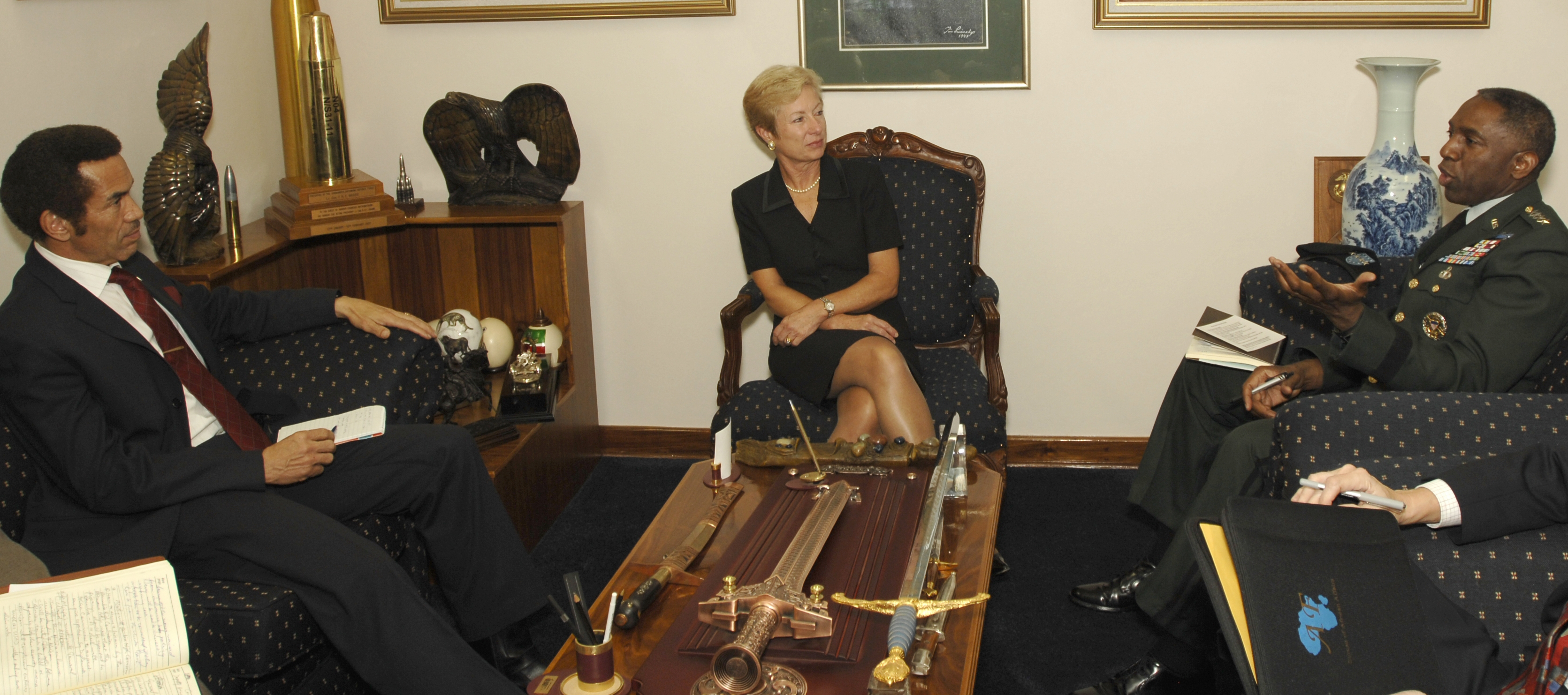 U.S. Ambassador to Botswana, Katherine Canavan, center, and U.S. Army Gen. William Ward, background right, commander, U.S. Africa Command (AFRICOM) meets with the Botswana Vice President, Ian Khama, left, during the generals visit to Gaborone, Botswana, Dec. 3, 2007. (U.S. Air Force photo by Tech. Sgt. Nic Raven/Released)